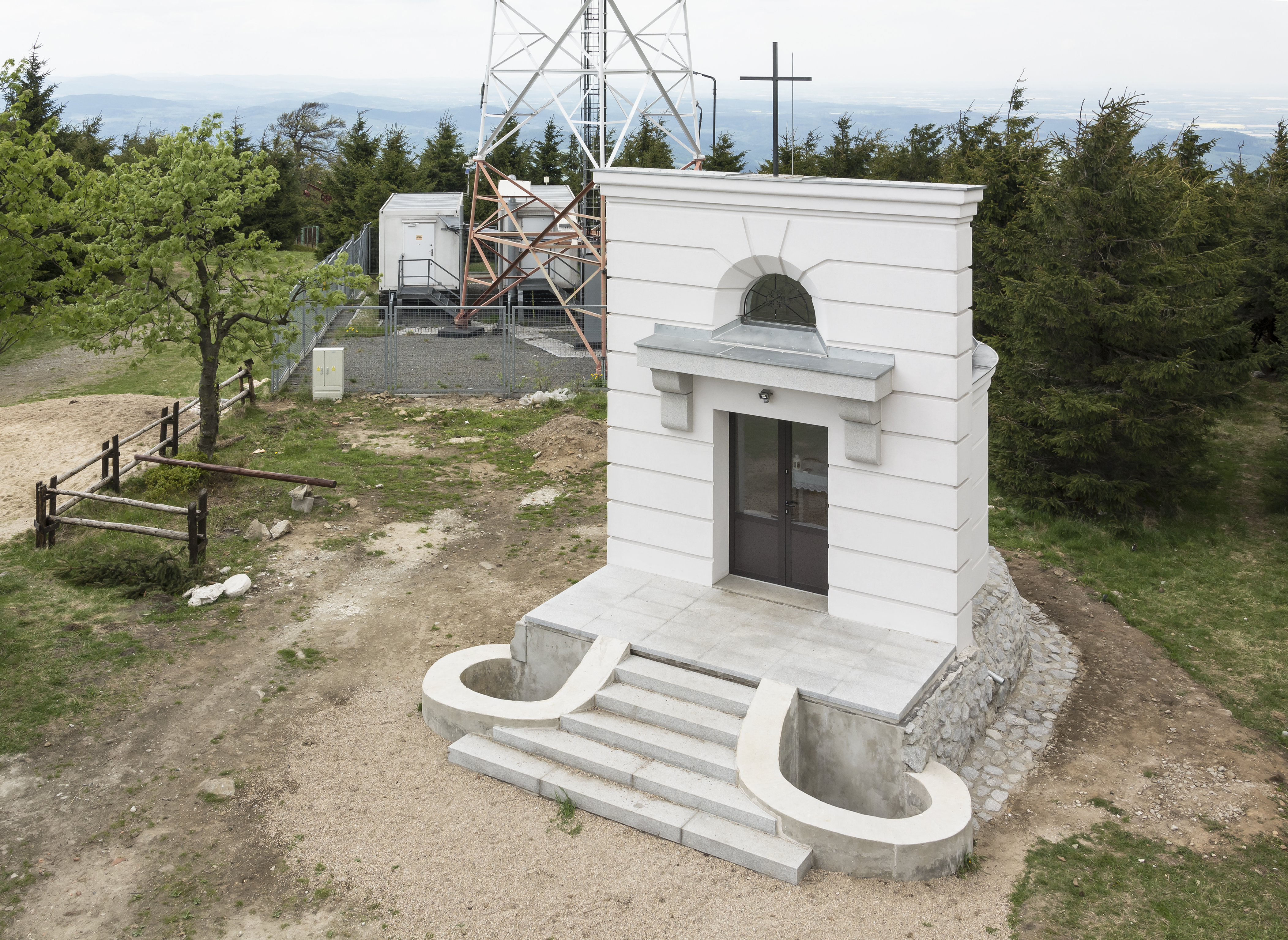 Chapel on Wielka Sowa